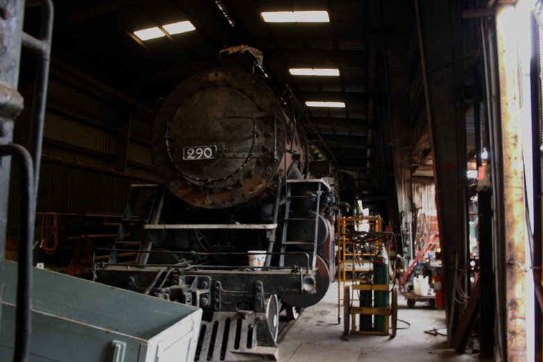 Atlanta and West Point 290 undergoing restoration at the Southeastern Railway Museum shops.